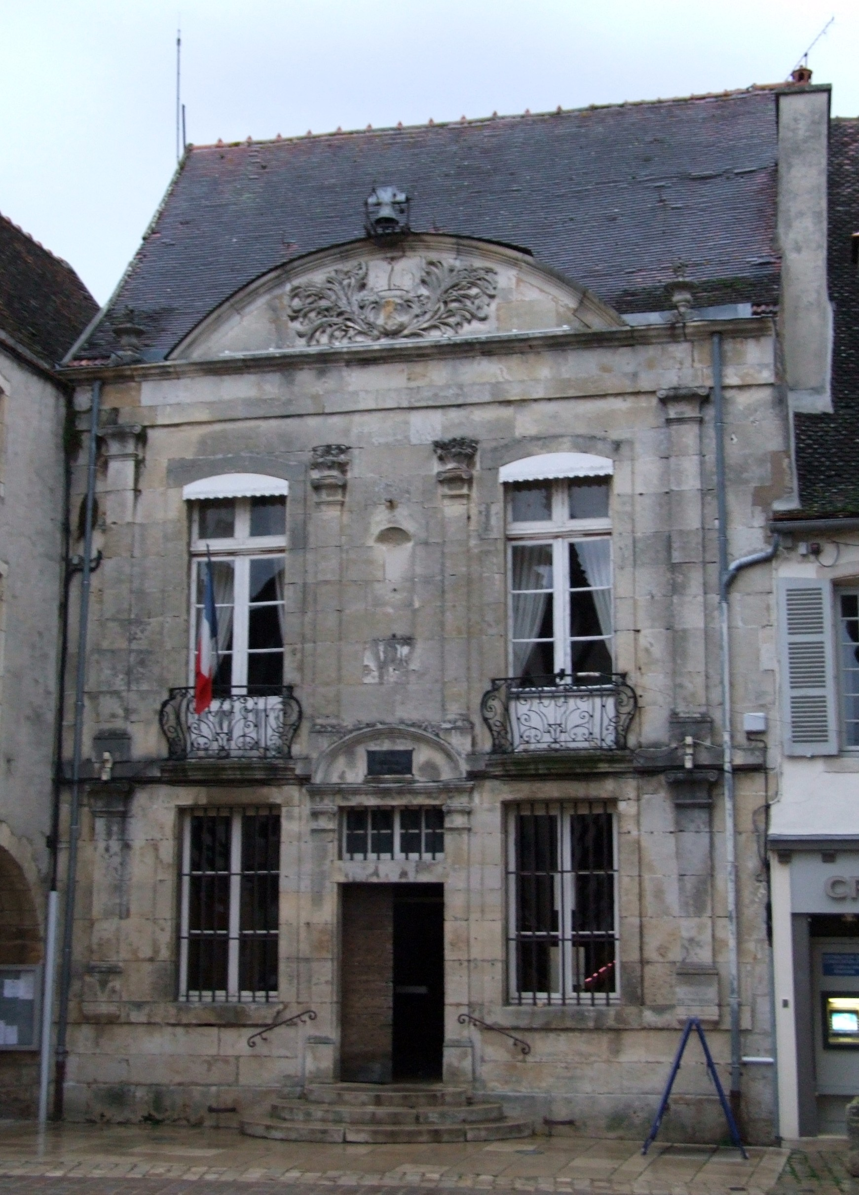 Townhall, Noyers-sur-Serein, Yonne, Burgundy FRANCE